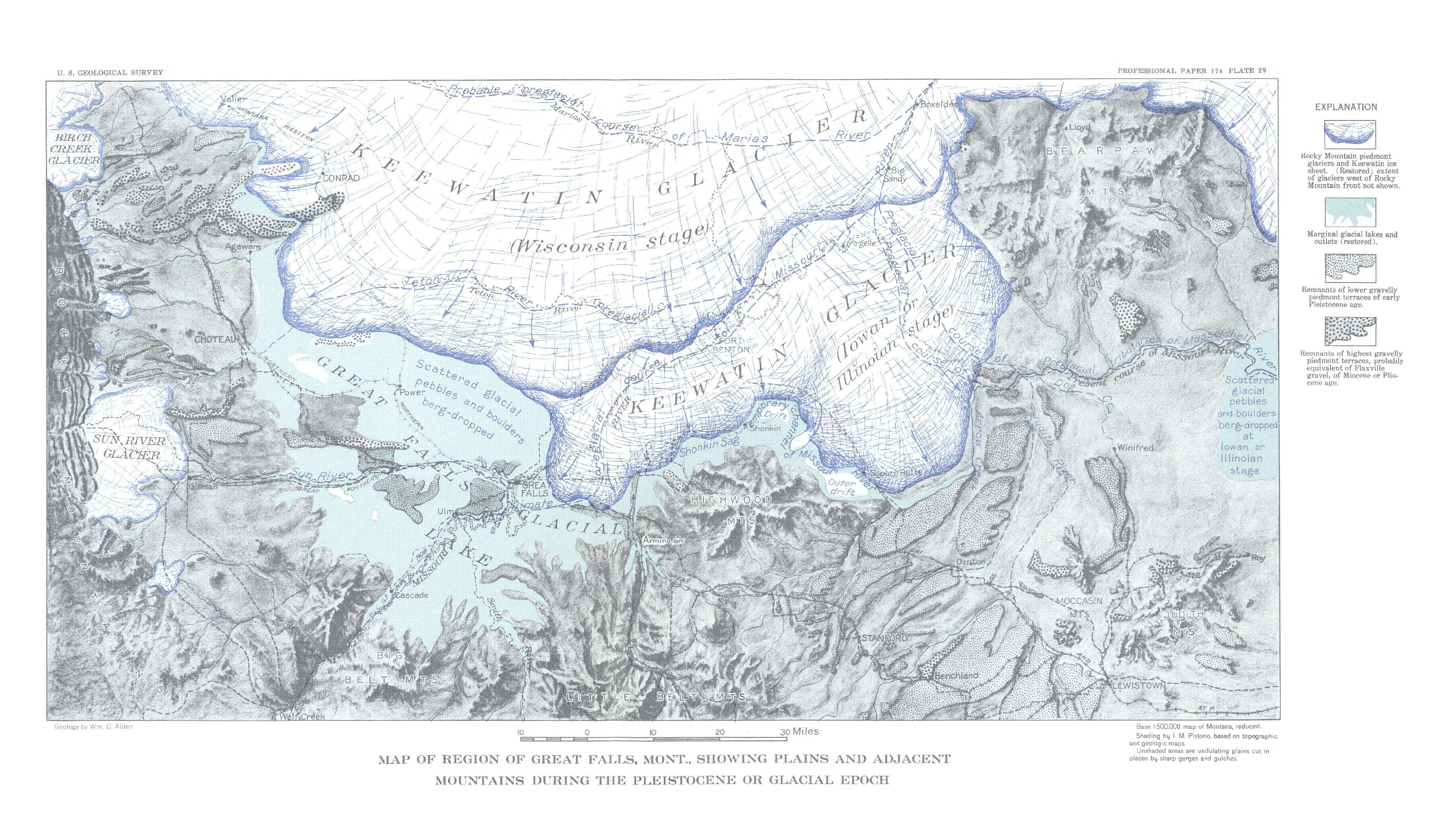 Map of Region of Great Falls, Montana (pg 88)